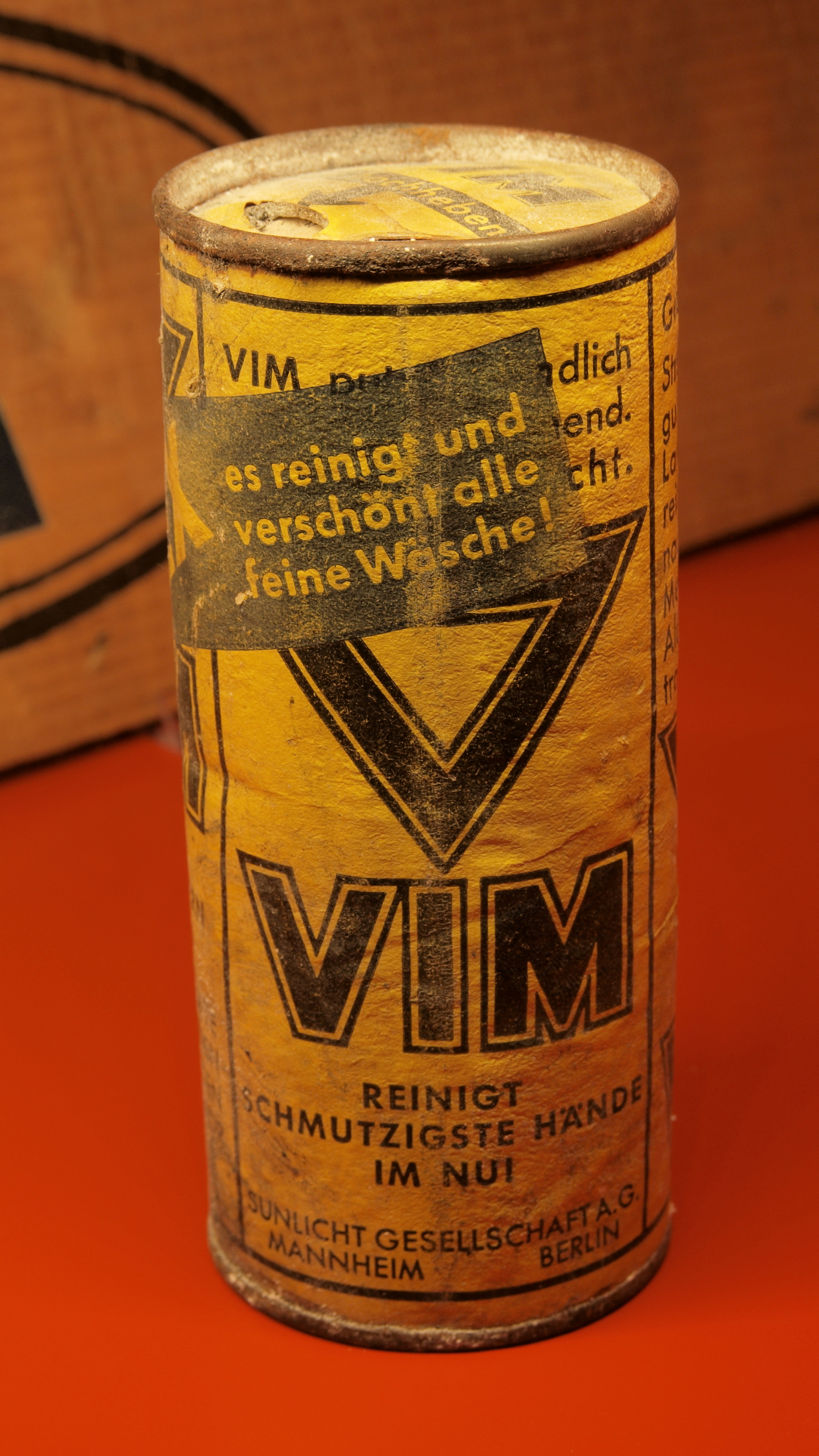 VIM Abrasive cleaning agent of Sunlicht Gesellschaft A.G, Mannheim/Berlin, Germany. Photographed at Museum für Hamburgische Geschichte, Hamburg, Germany